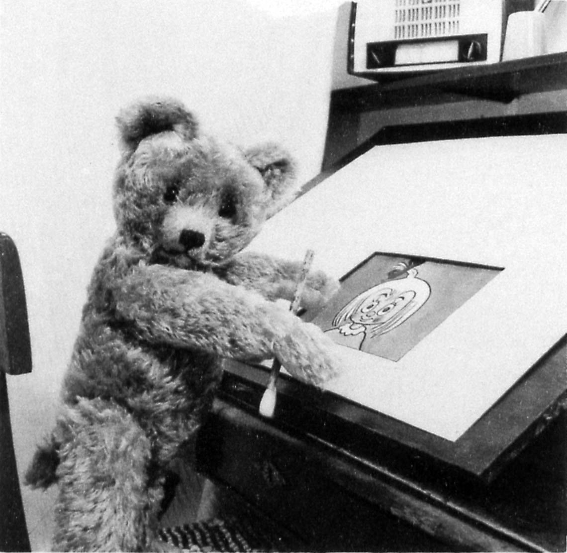 Still from the production of Rune Andréasson's (1925–1999) animated TV series "Nalle ritar och berättar" (1950s), Gothenburg.